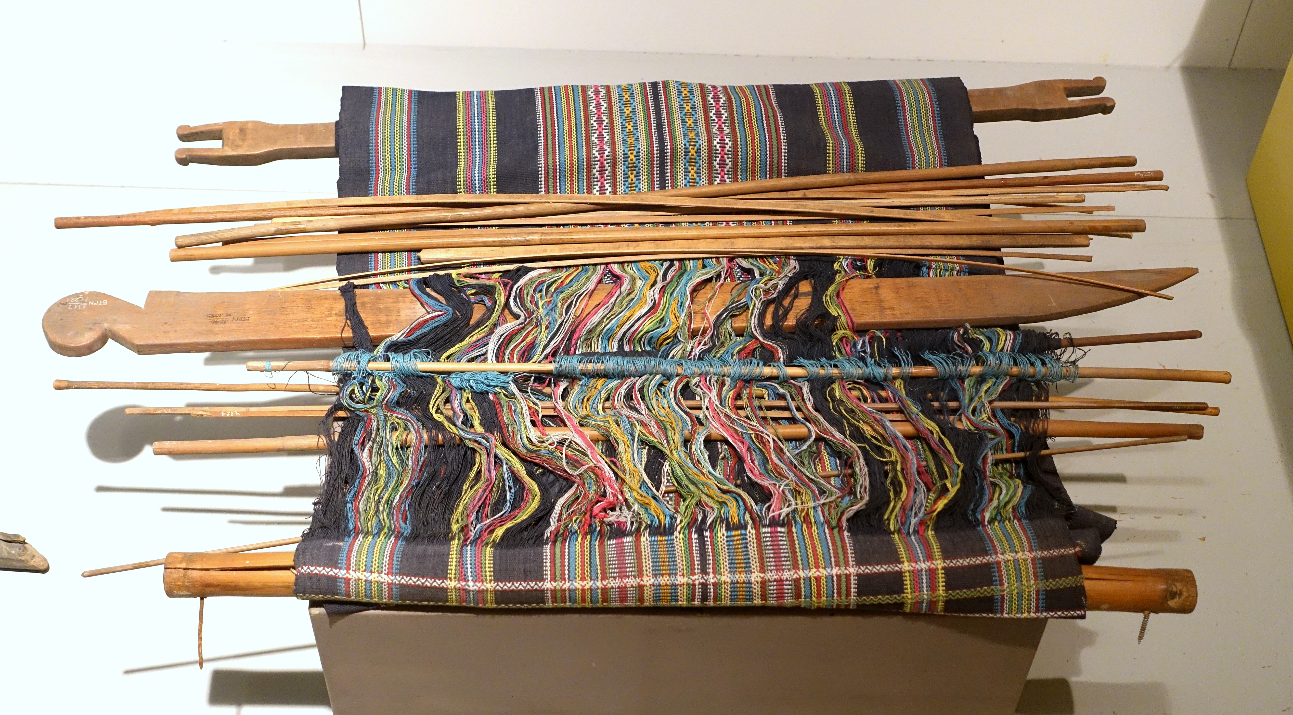 Exhibit in the Vietnamese Women's Museum, Hanoi, Vietnam.